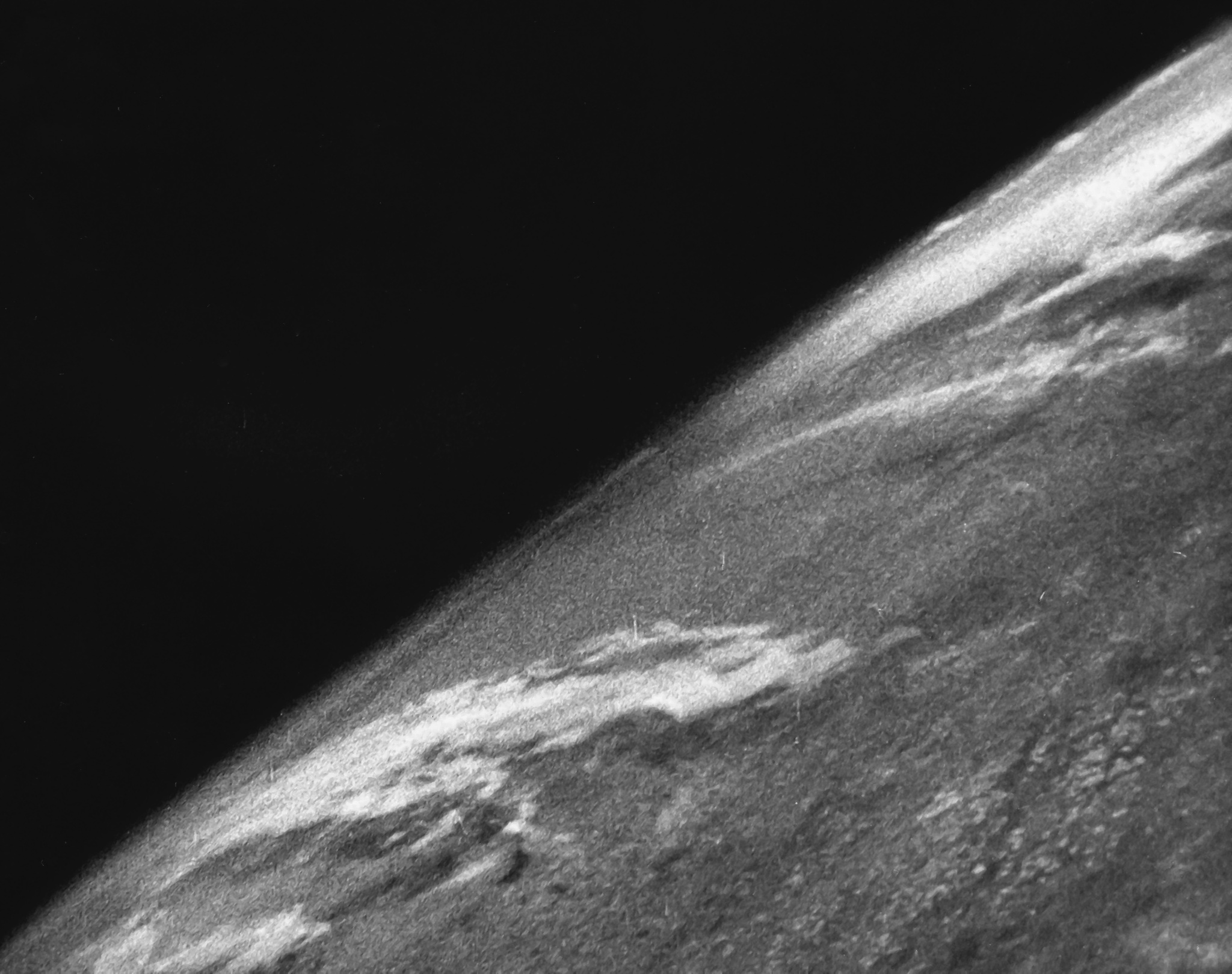 The first photos taken from space were taken on October 24, 1946 on the sub-orbital U.S.-launched V-2 rocket (flight #13) at White Sands Missile Range. Photos were taken every second and a half. The highest altitude (65 miles, 105 km) was 5 times higher than any picture taken before.